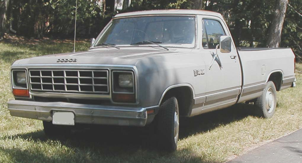 1981-1993 Dodge Ram photographed in USA.